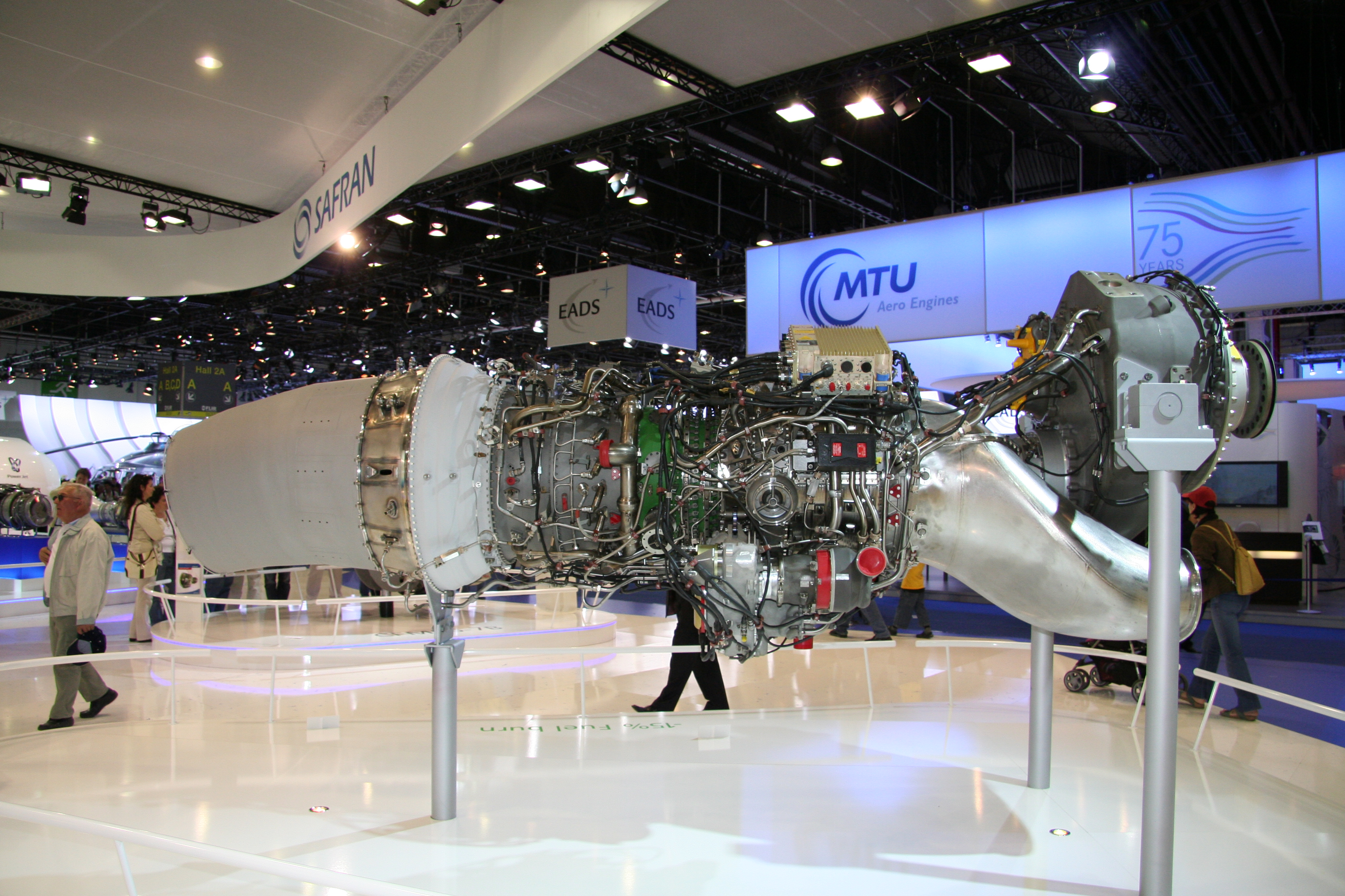 Europrop TP400 - Paris Air Show 2009